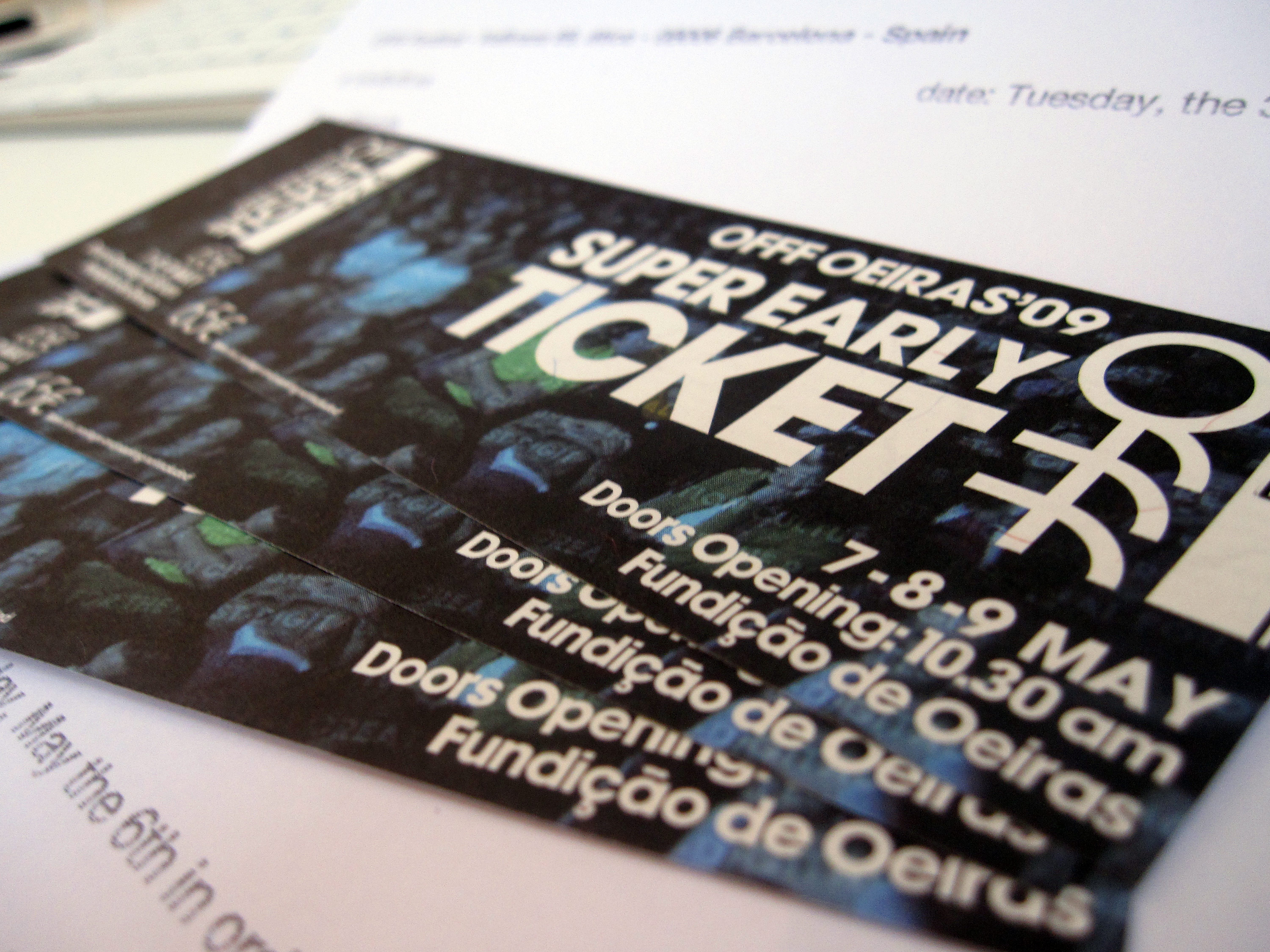 Offf tickets 2009